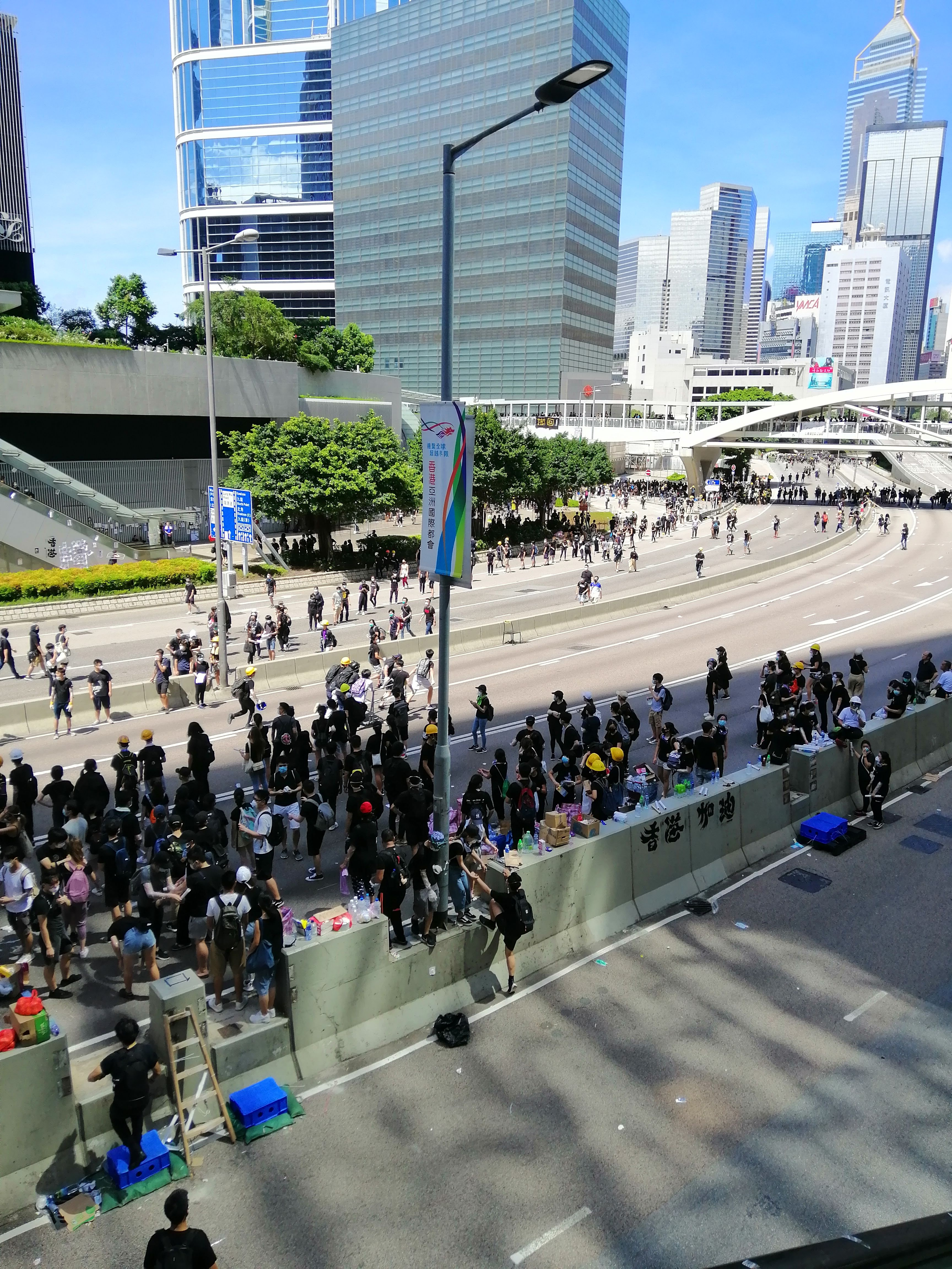 Harcourt Road in Central was occpupied by protestors on 1 July, 2019